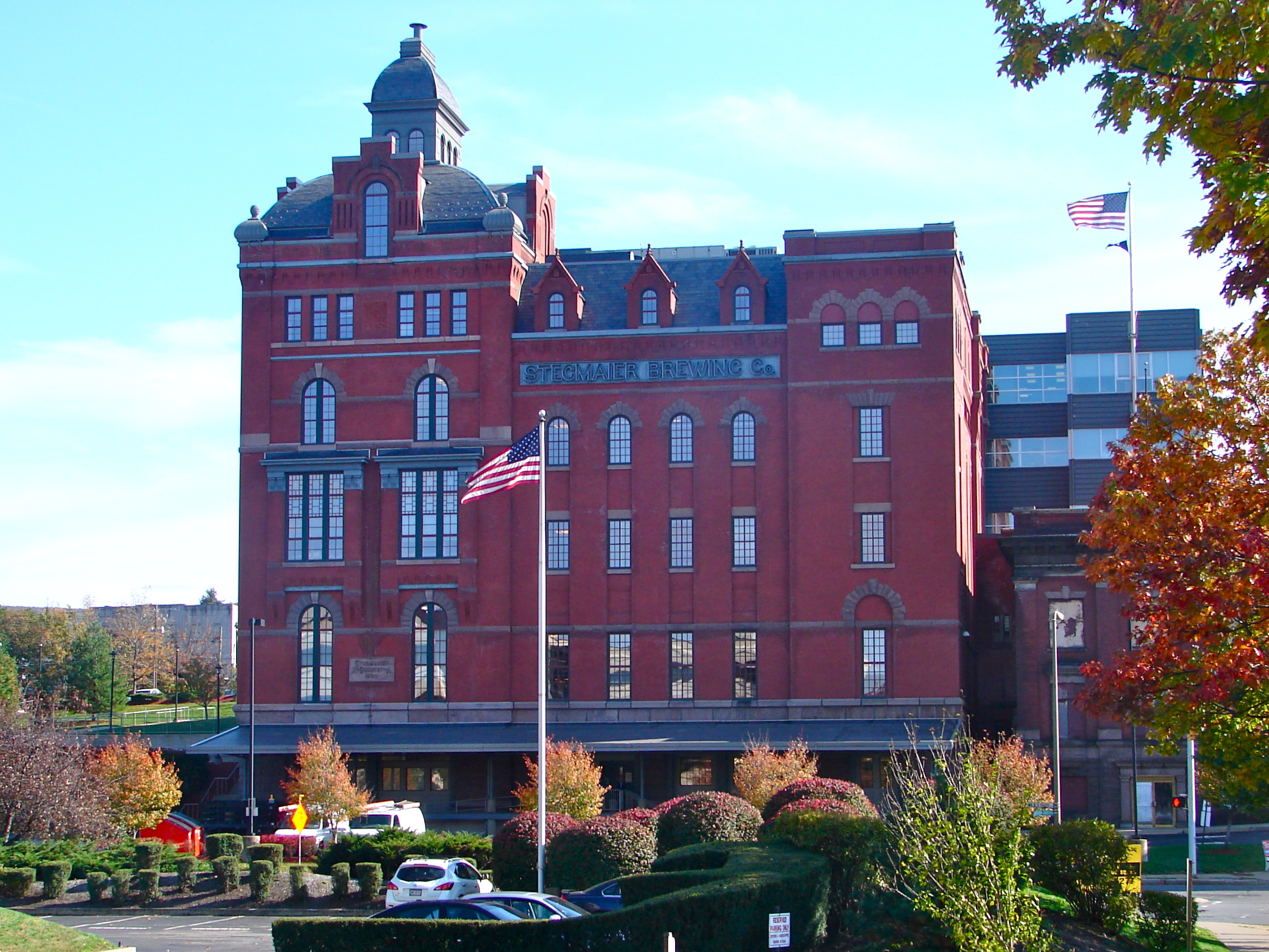 Stegmaier Brewery on the NRHP since May 30, 1979. This building is on Wilkes-Barre Street, Wilkes-Barre, Pennsylvania. The overall site is roughly bounded by Coal, Welles, Market, Lincoln and Baltimore Streets in Wilkes-Barre